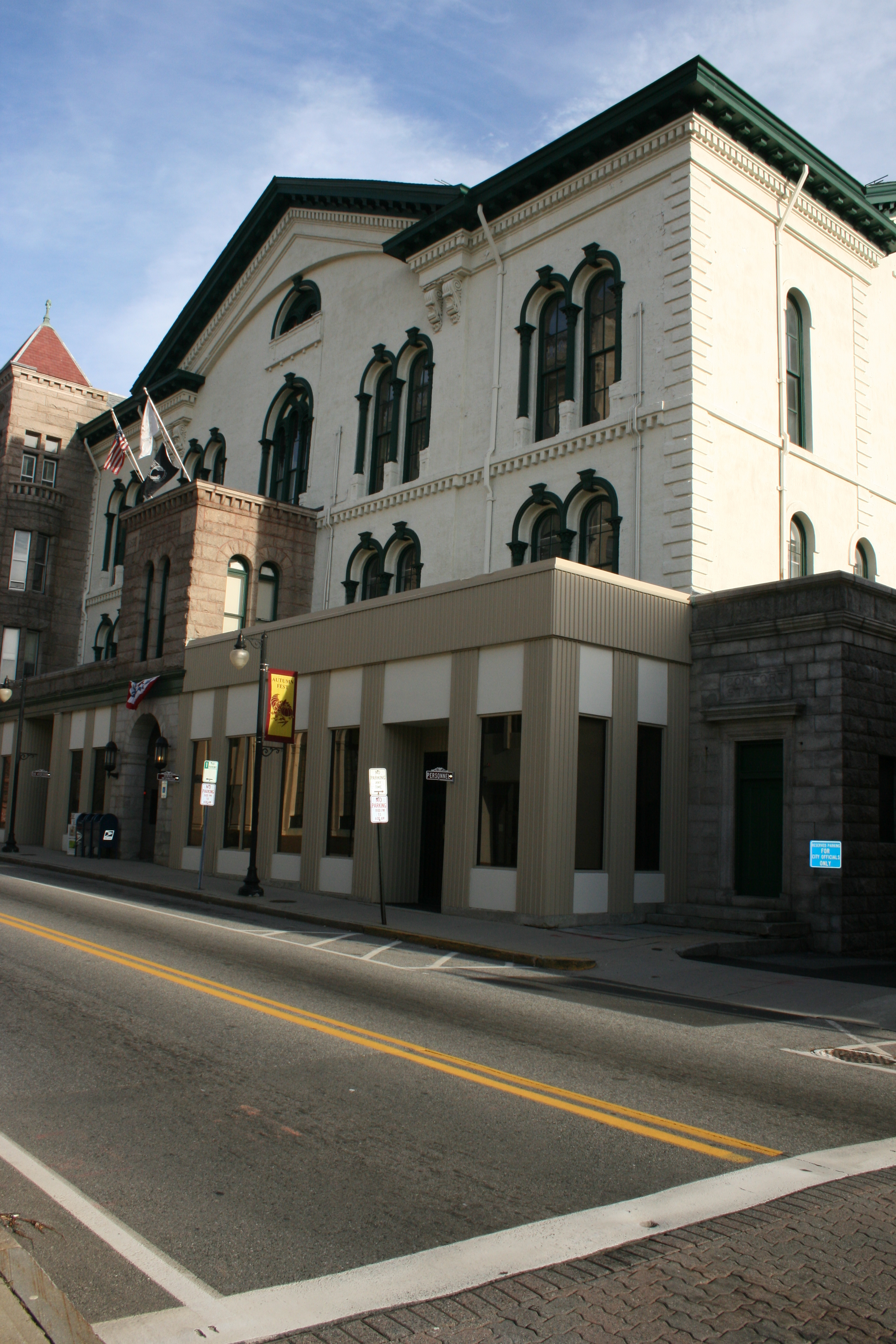 Woonsocket City Hall, built in 1856.